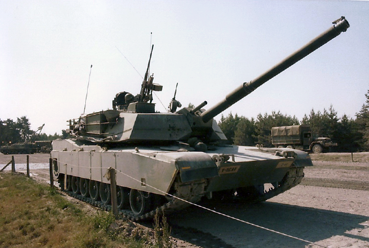 M1 Abrams tank with 105mm cannon at Grafenwöhr, 1986.